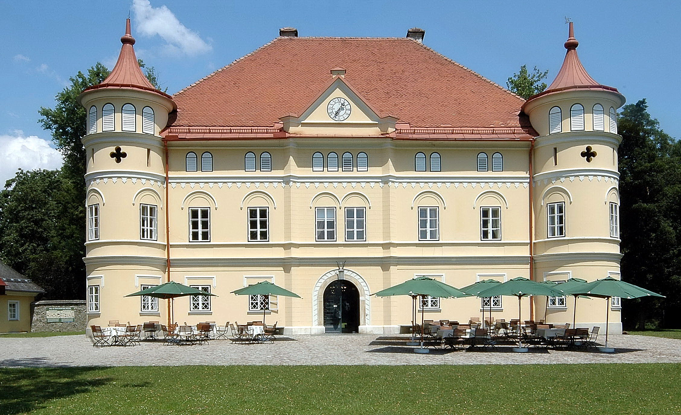 Castle “Mageregg” at the 9th district "Annabichl" of the statory city Klagenfurt, Carinthia, Austria, EU